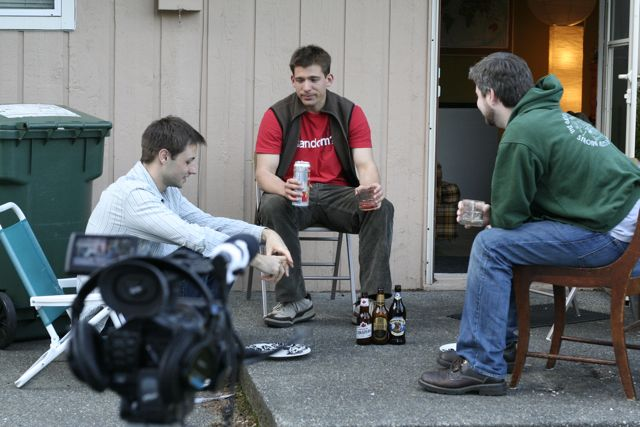 Picture of part of the cast of Jet Set Zero, taken in Northgate, Seattle, WA.